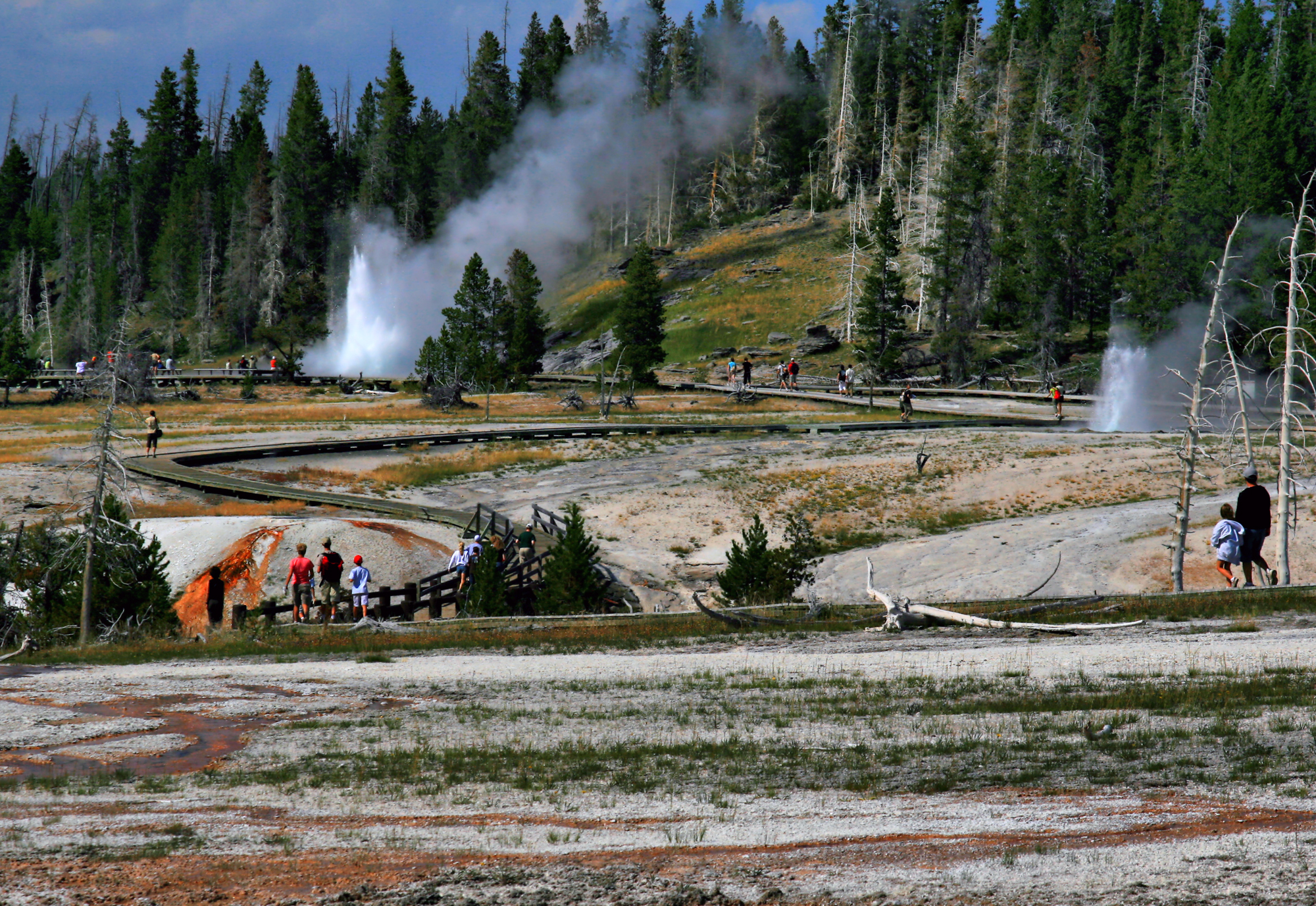 Sawmill and Grand geysers erupting in Yellowstone National Park.